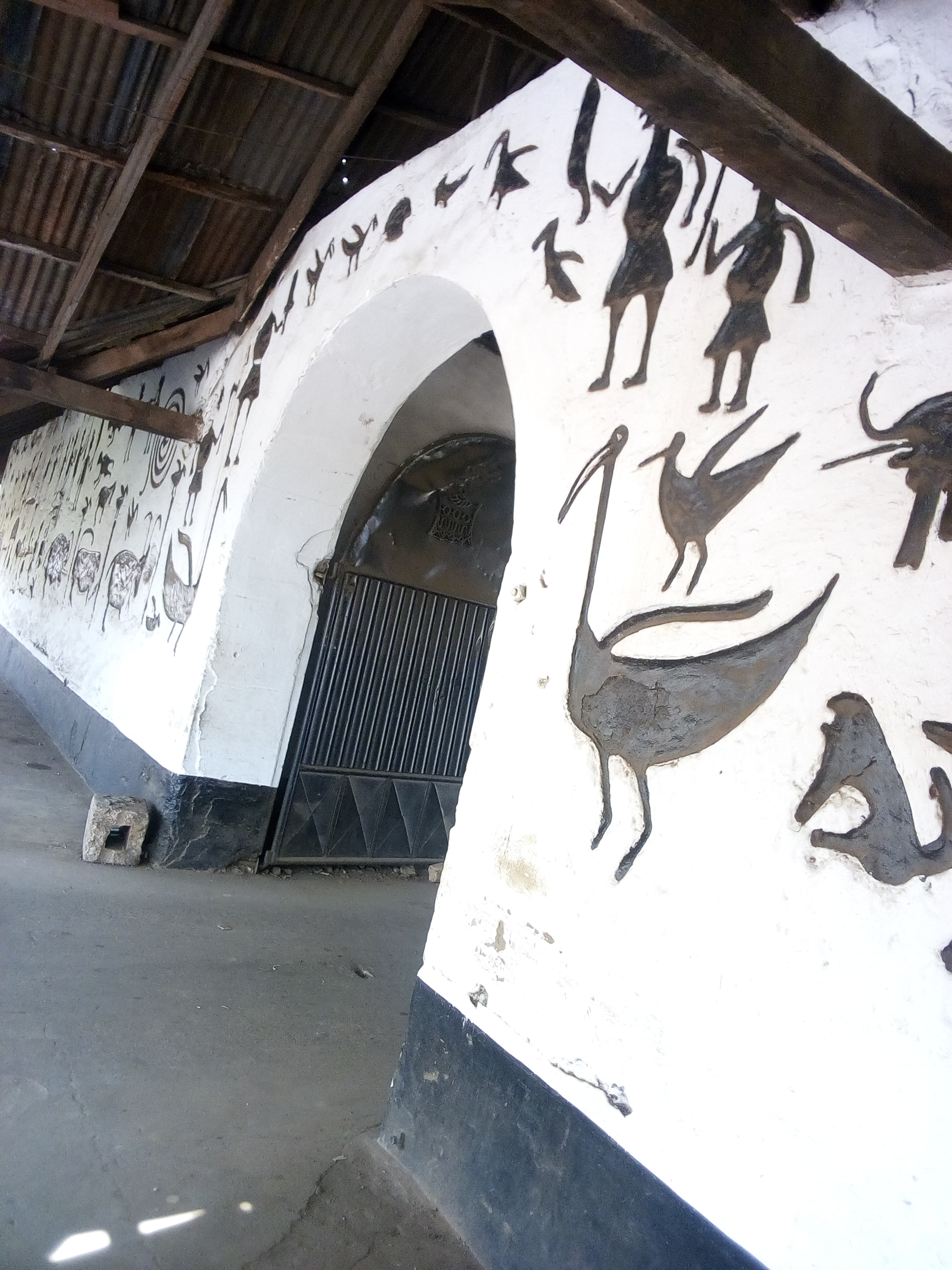 Image shows walls with the unique ancient art work of the Yoruba kings . It depicts features of the Yoruba heritage. This is an image of "African people at work" from Nigeria